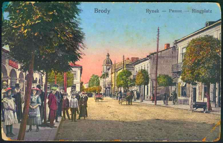 View over the market square of BRODY, city in Lviv region of western UKRAINE in 1914 (then part of Galicia, Austro-Hungarian empire).